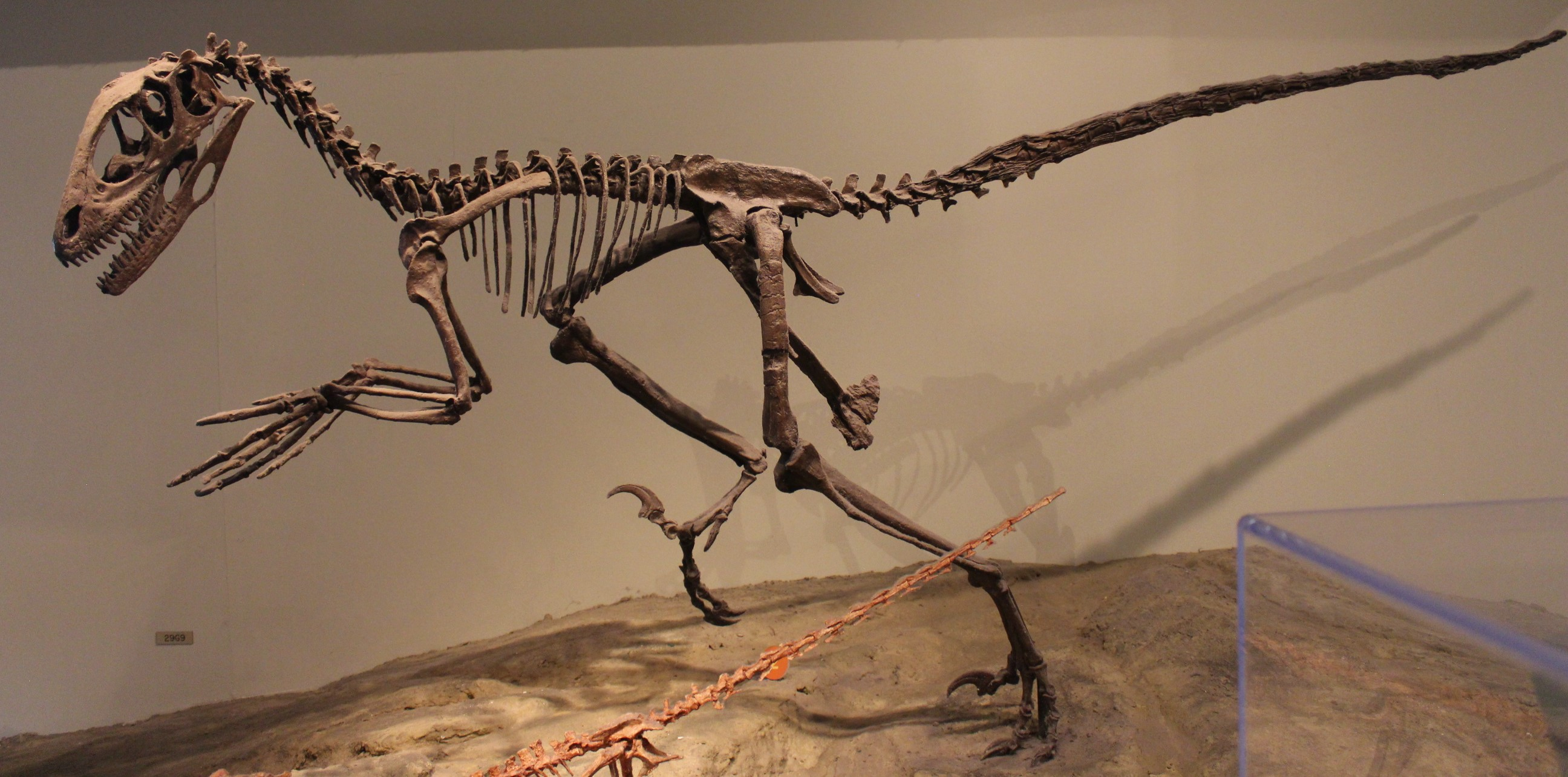 Deinonychus skeletal mount on display at the Field Museum of Natural History.